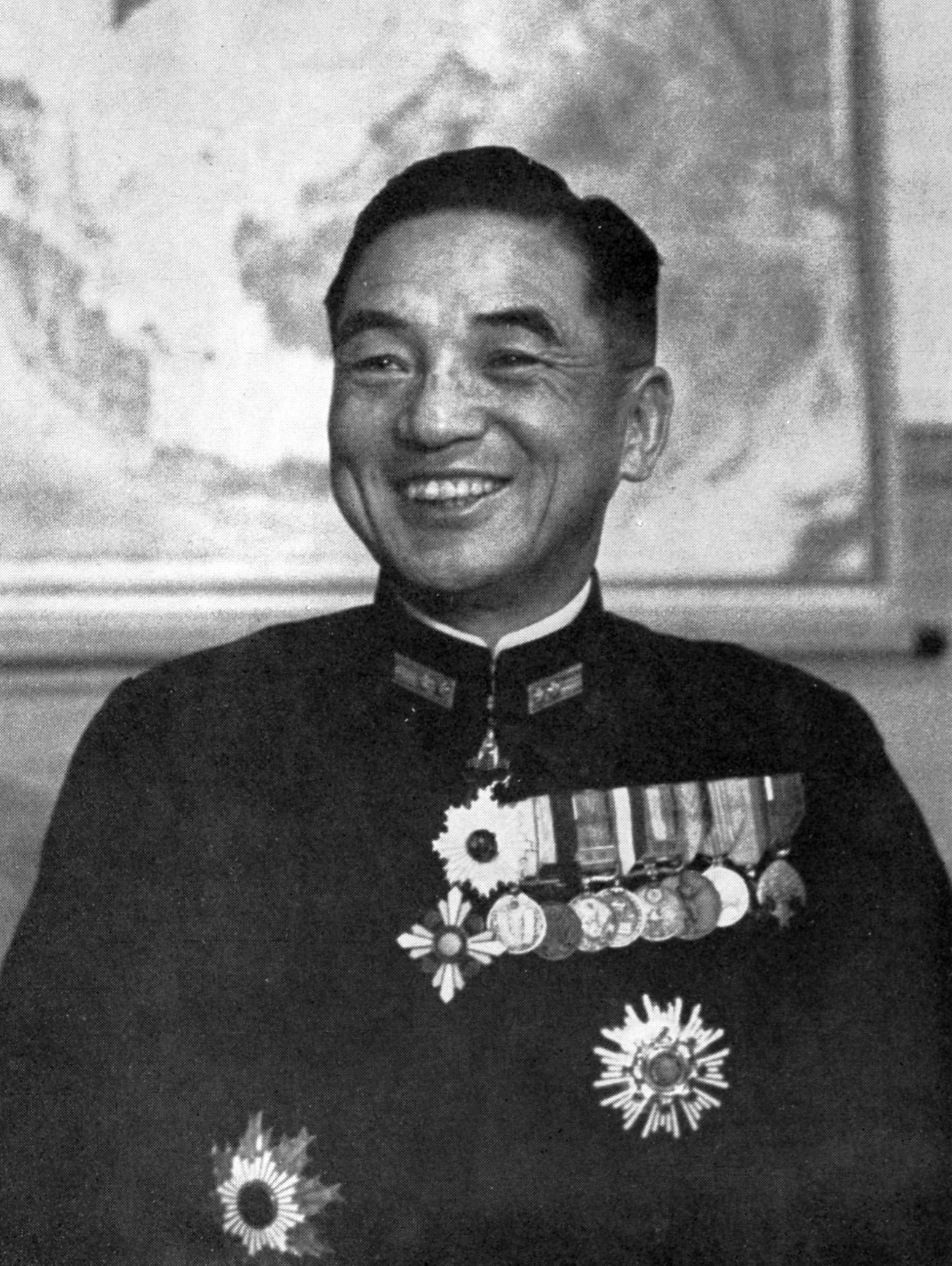 Kanazawa Masao is an Imperial Japanese Navy Vice Admiral